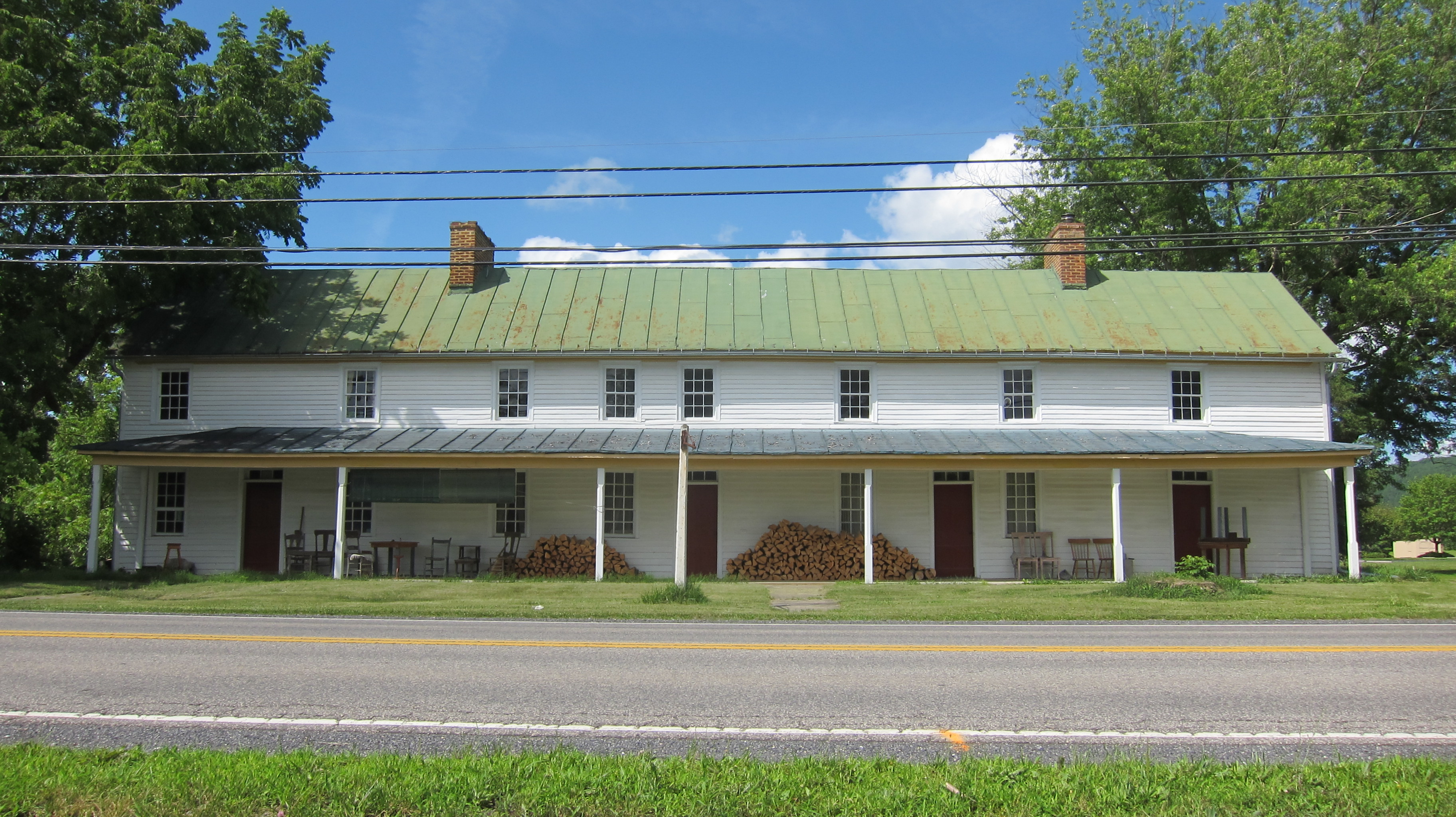 Frye's Inn is an early 19th-century stagecoach inn and tavern along the Northwestern Pike (U.S. Route 50) east of the "Capon Bridge" that crosses the Cacapon River in Capon Bridge, West Virginia. Photographed on 14 July 2013.